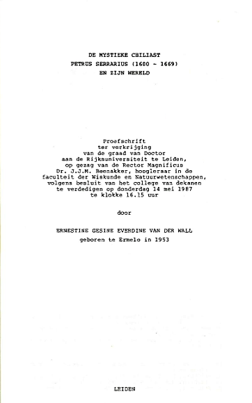 Ernestine Gesine Everdine van der Wall: De mystieke chiliast Petrus Serrarius (1660-1669) en zijn wereld, Leiden, 1987. Title page.